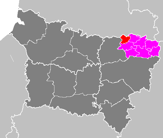 Maps of arrondissements and cantons of France: Arrondissement de Vervins - Canton de Wassigny.PNG